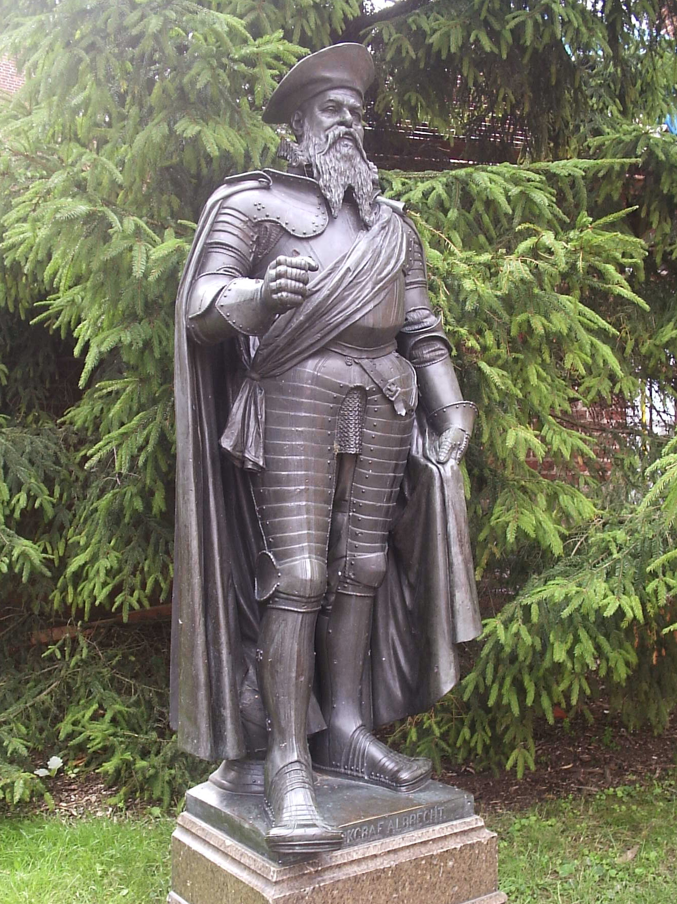 Statue of Albrecht von Brandenburg-Ansbach, Grand Master of the Teutonic Order, Castle of Malbork, Poland